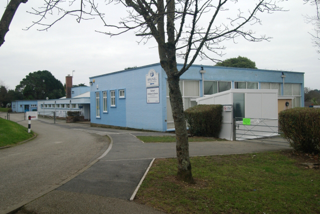 Brunel Primary School, Saltash The hideous blue Brunel Primary School, Plougastel Drive, Saltash, Cornwall. When I attended it nearly 40 years ago, it was a much more pleasant creamy colour, and was then named Longstone Infants' School!